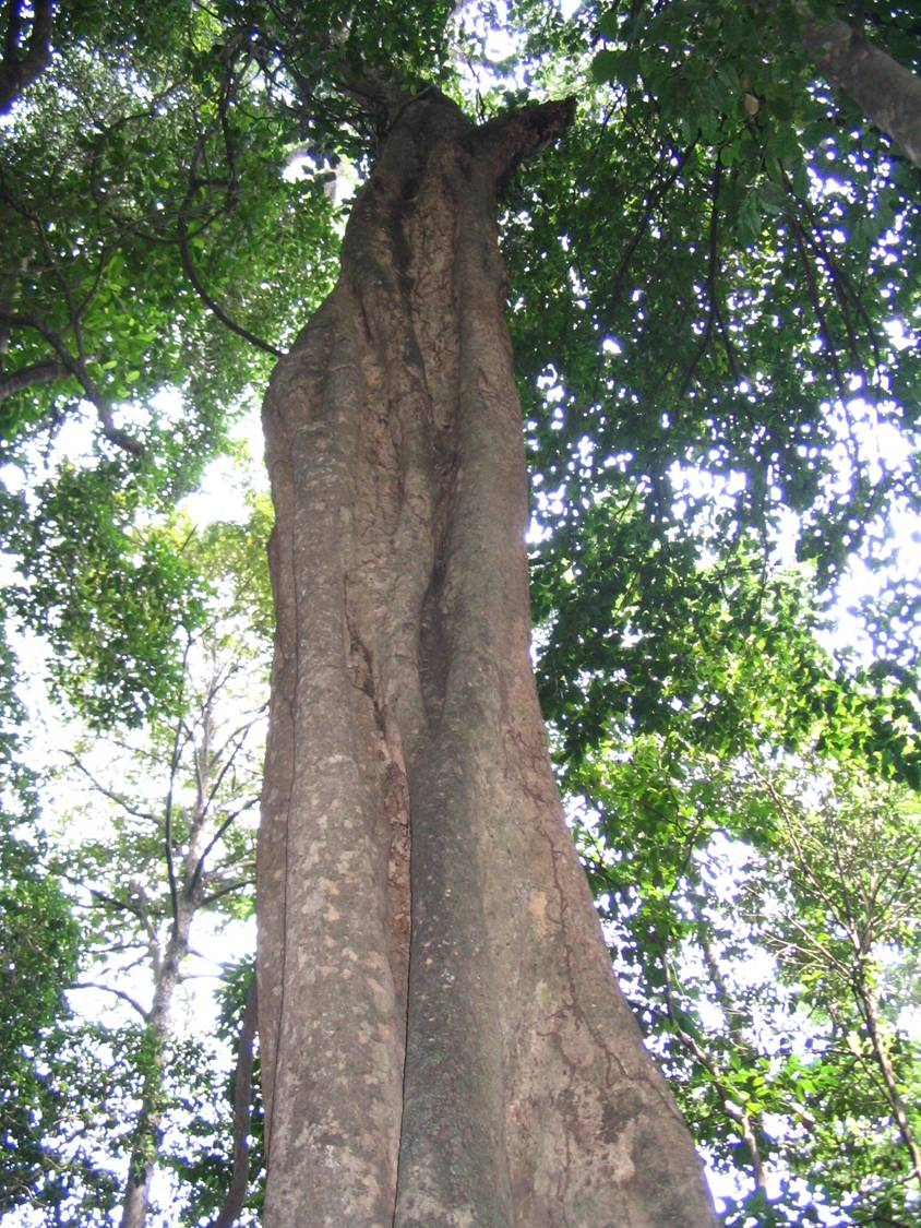 Ixonanthes reticulata- Bukit nanas forest reserve - Kuala Lumpur